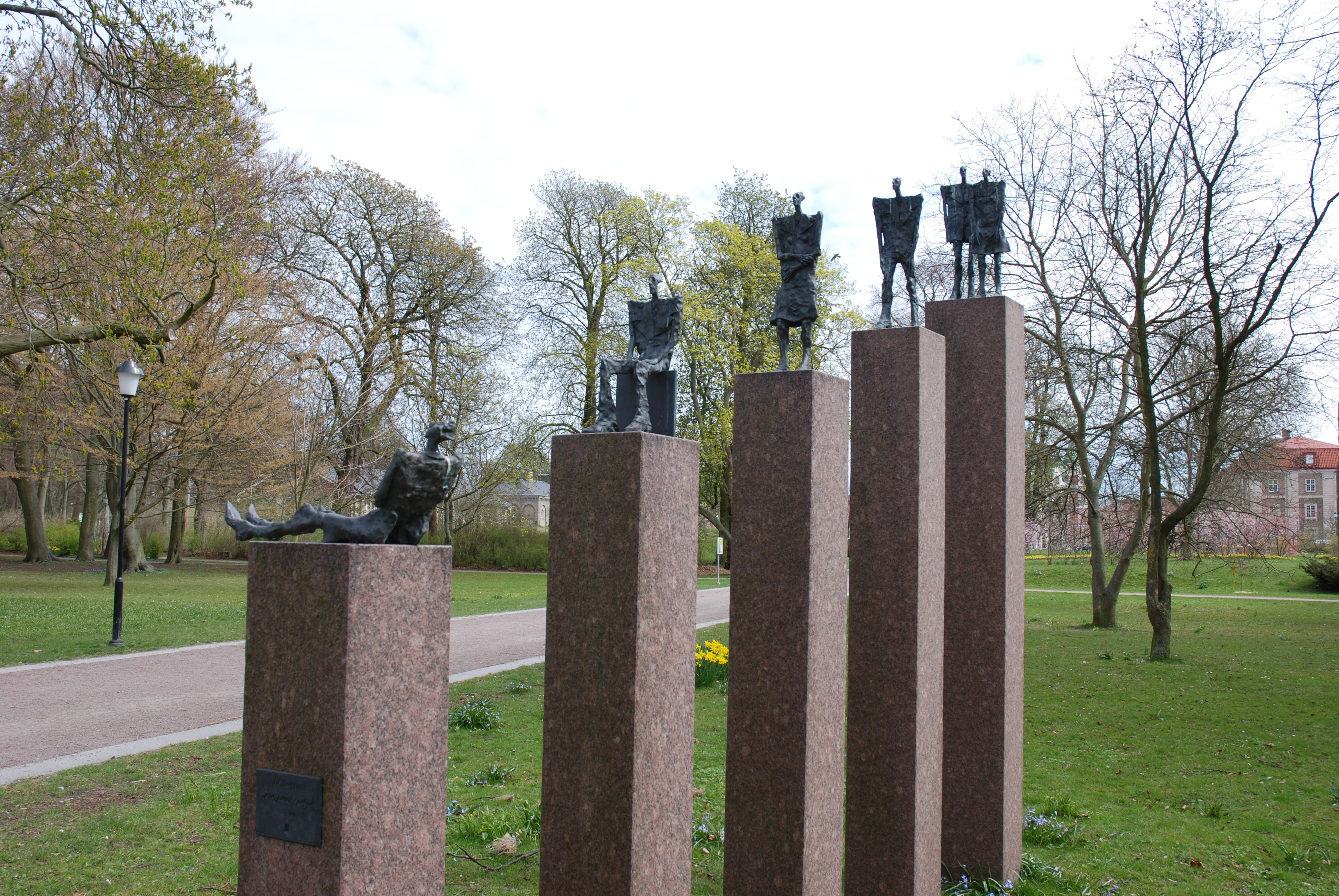 Jan Janczak´s Hon och han (She and he), Landskrona, Sweden